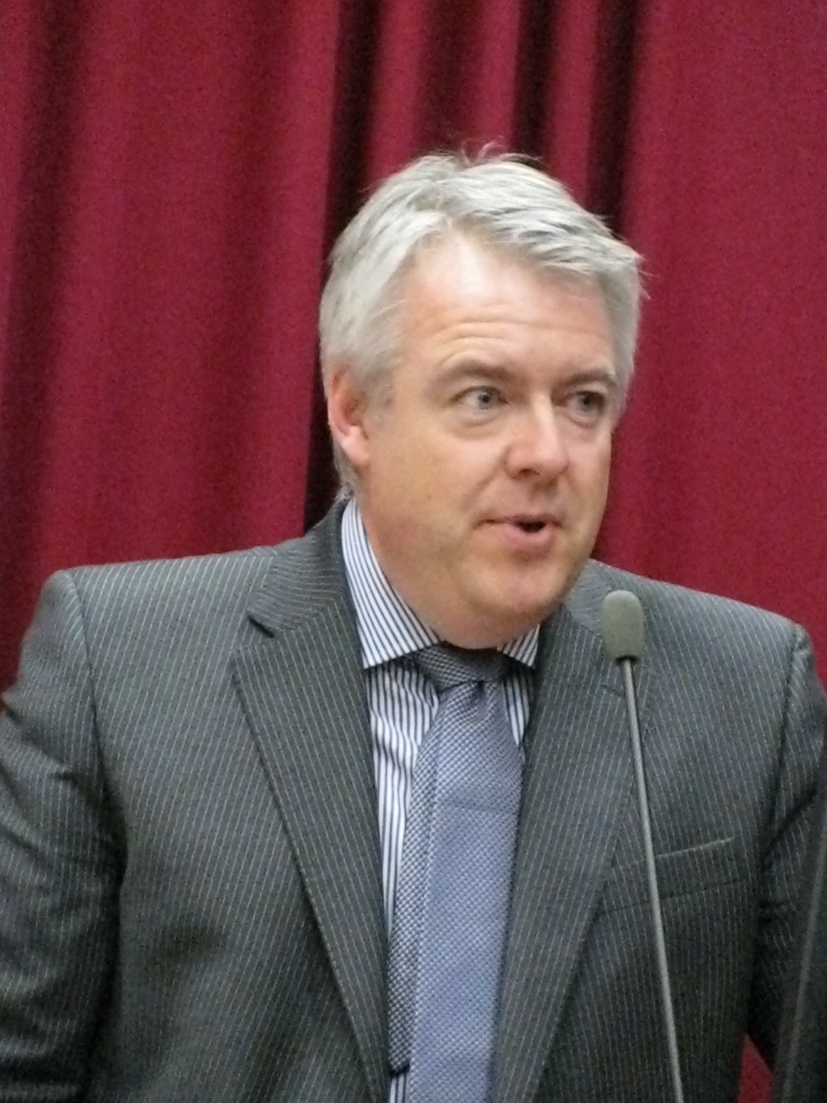 Carwyn Jones, the first minister of Wales